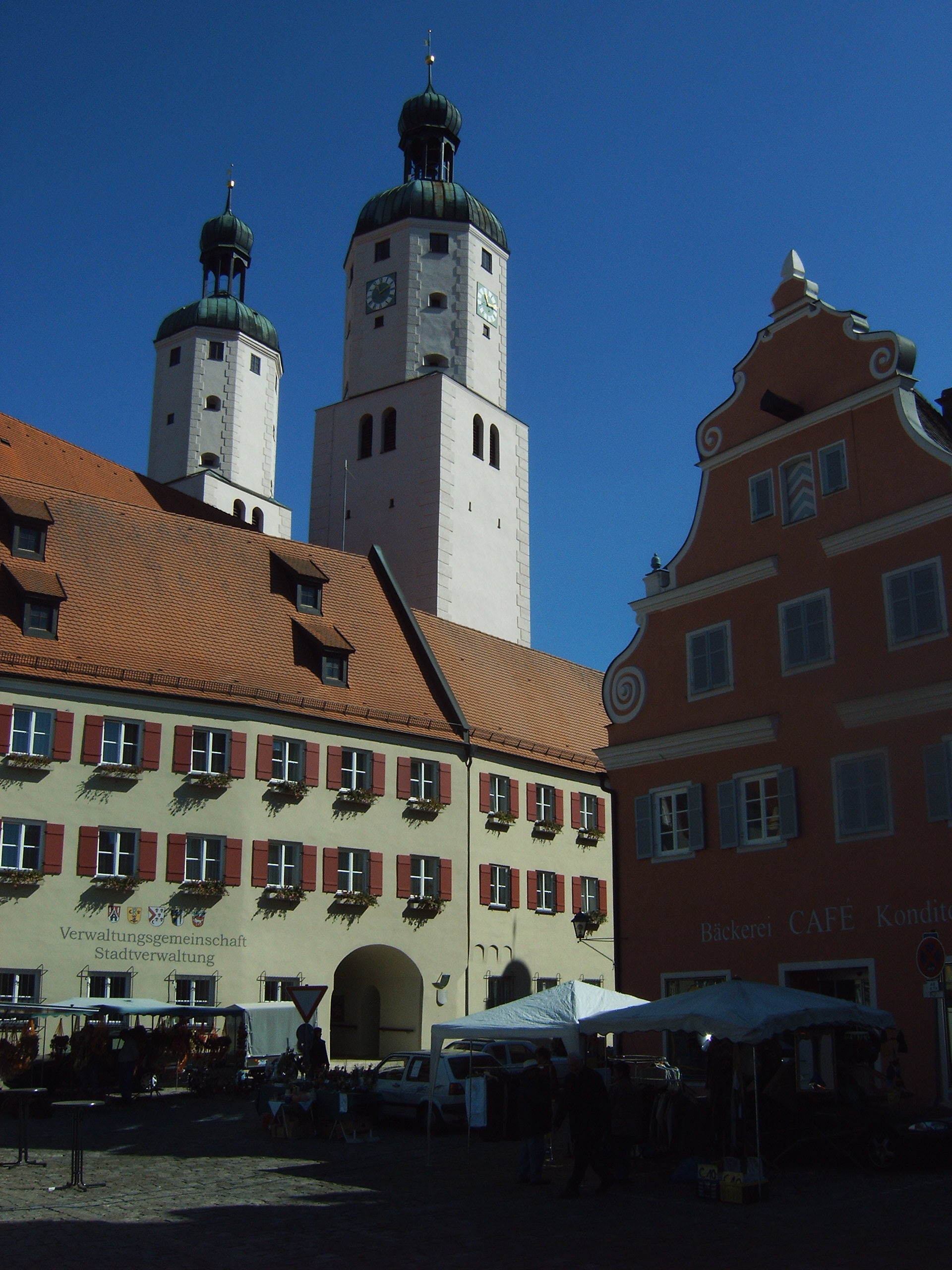 Church in Wemding, Germany, seen from the market square